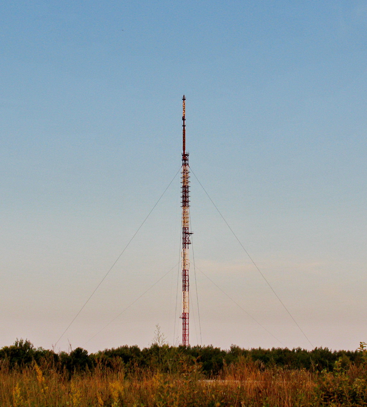 Smarhon', Belarus. TV-tower